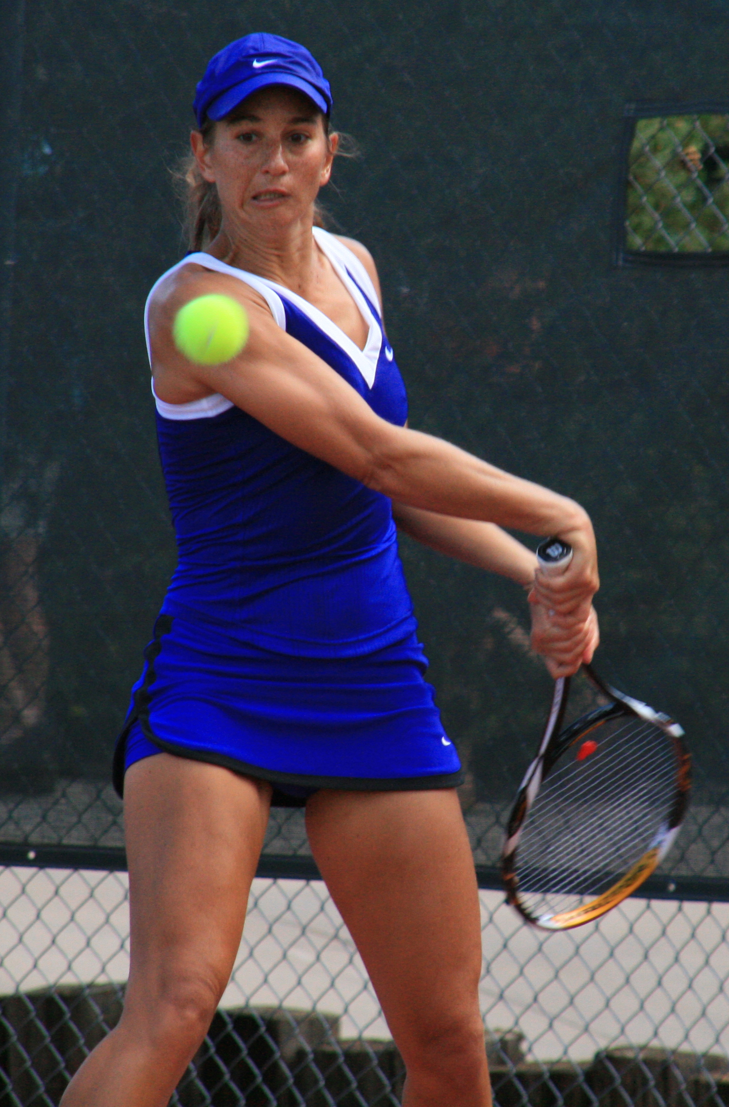 Rossana de los Ríos in the singles final at the Coleman Vision Tennis Championship in Albuquerque, New Mexico